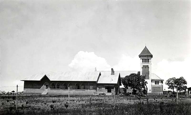 View of the church buildings, Jadotville (now Likasi), Belgian Congo (now Democratic Republic of Congo/Congo-Kinshasa). Photograph of original b/w postcard, unattributed photographer c1930.